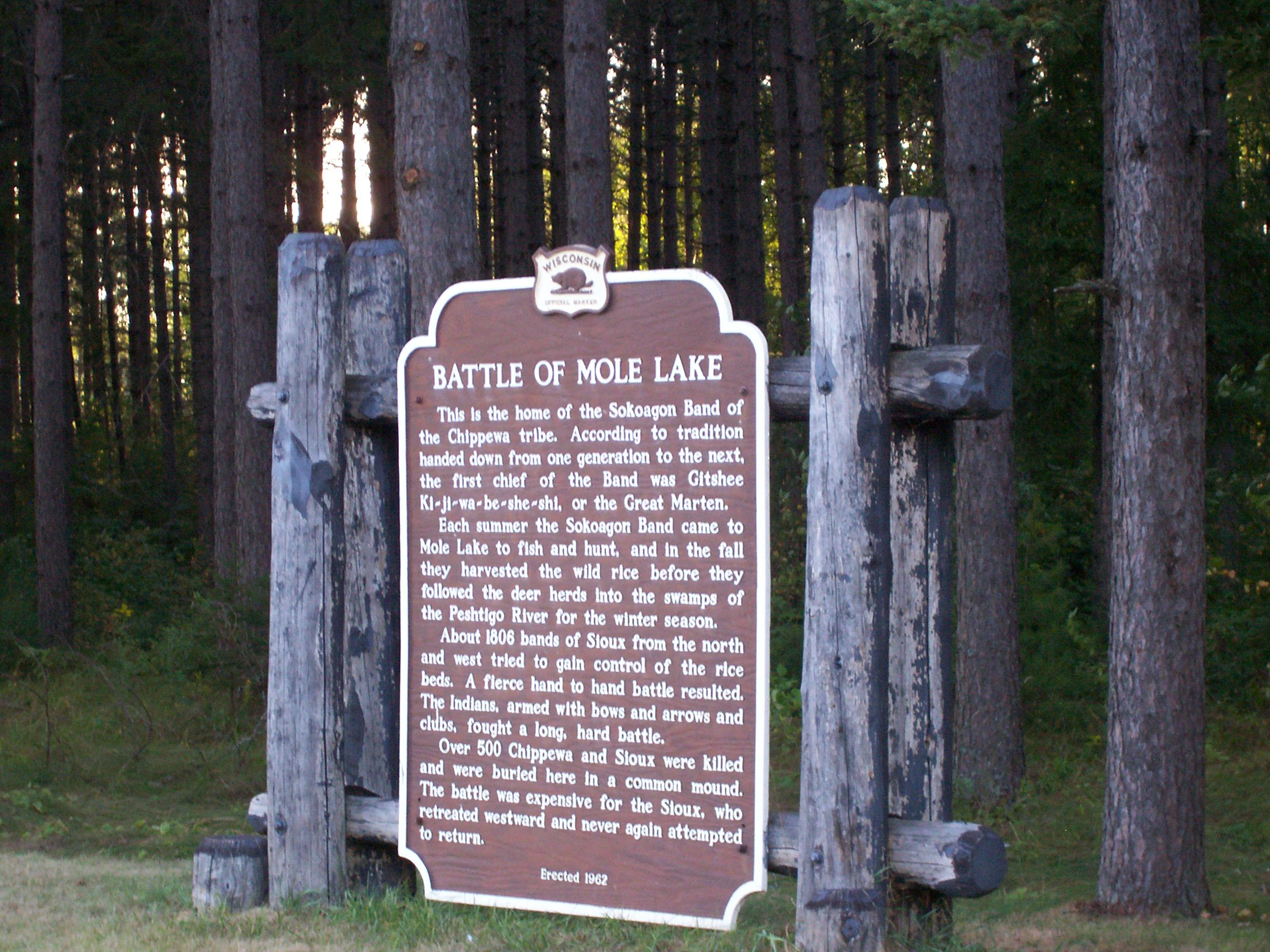 A road sign commemorates the Battle of Mole Lake, located on Wisconsin Highway 55.